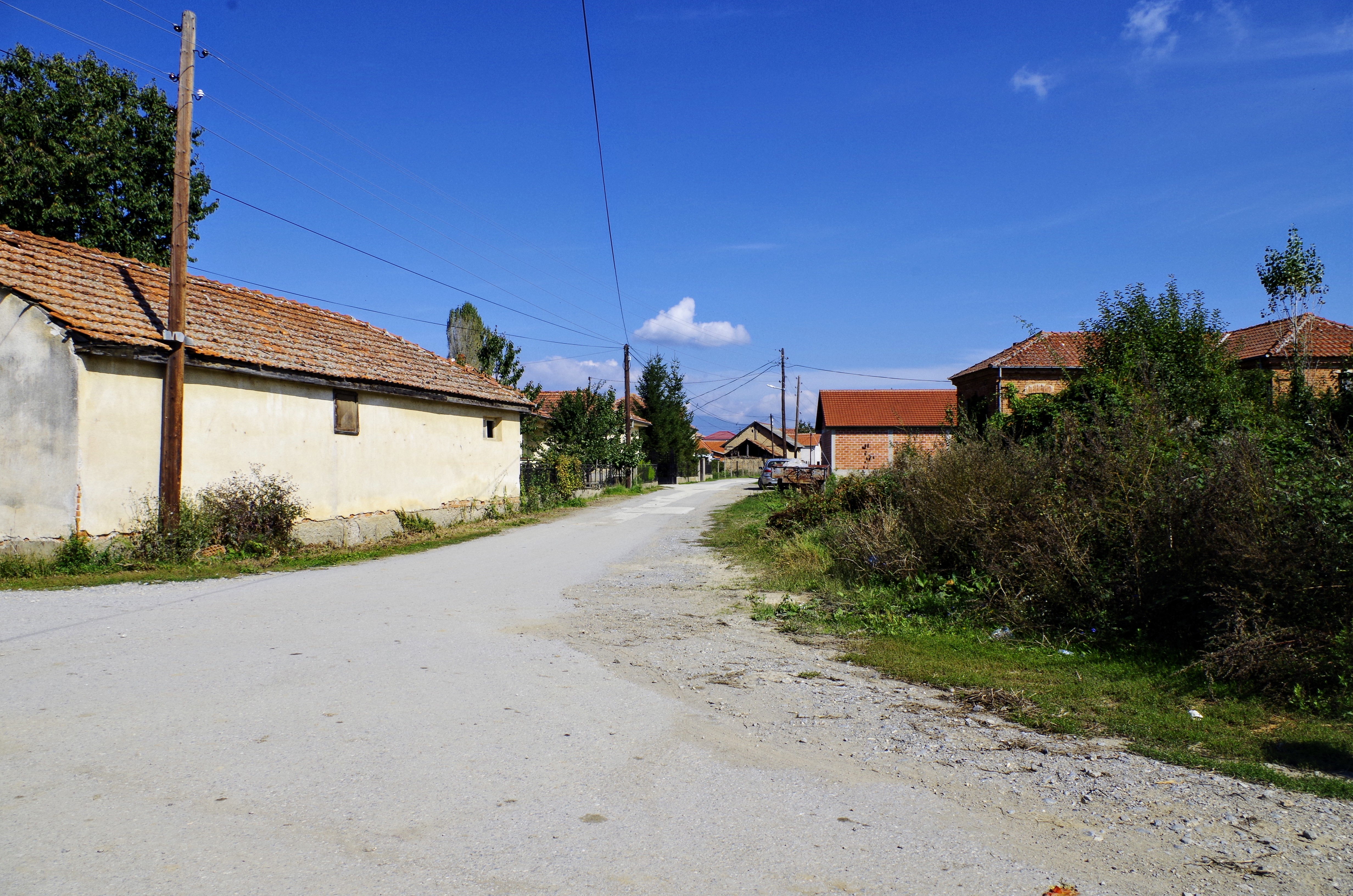 View of the village Ezerani